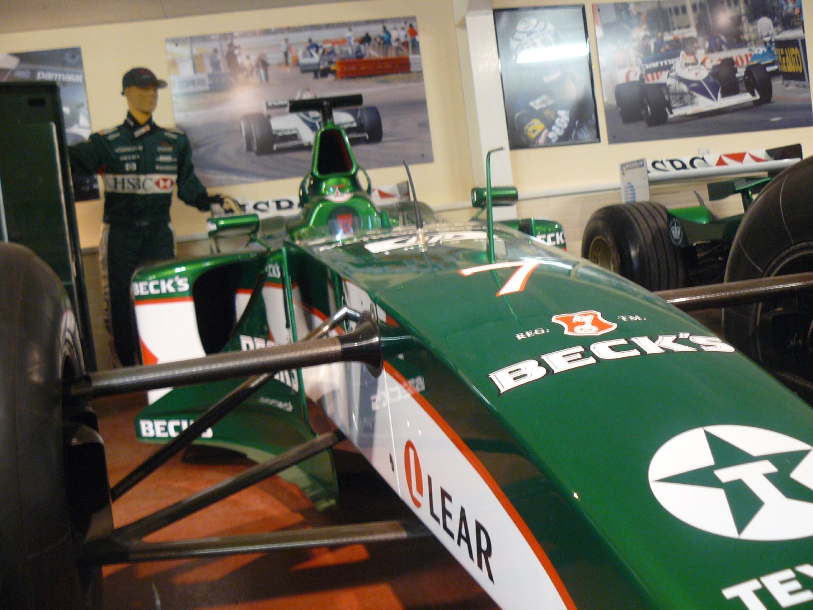 Jaguar R1 which competed in all the Grand Prix in the 2000 season at the hands of Eddie Irvine. The car had good speed, frequently qualifying in the top five, but scored only four points in the season due to too many spins & mechanical failures